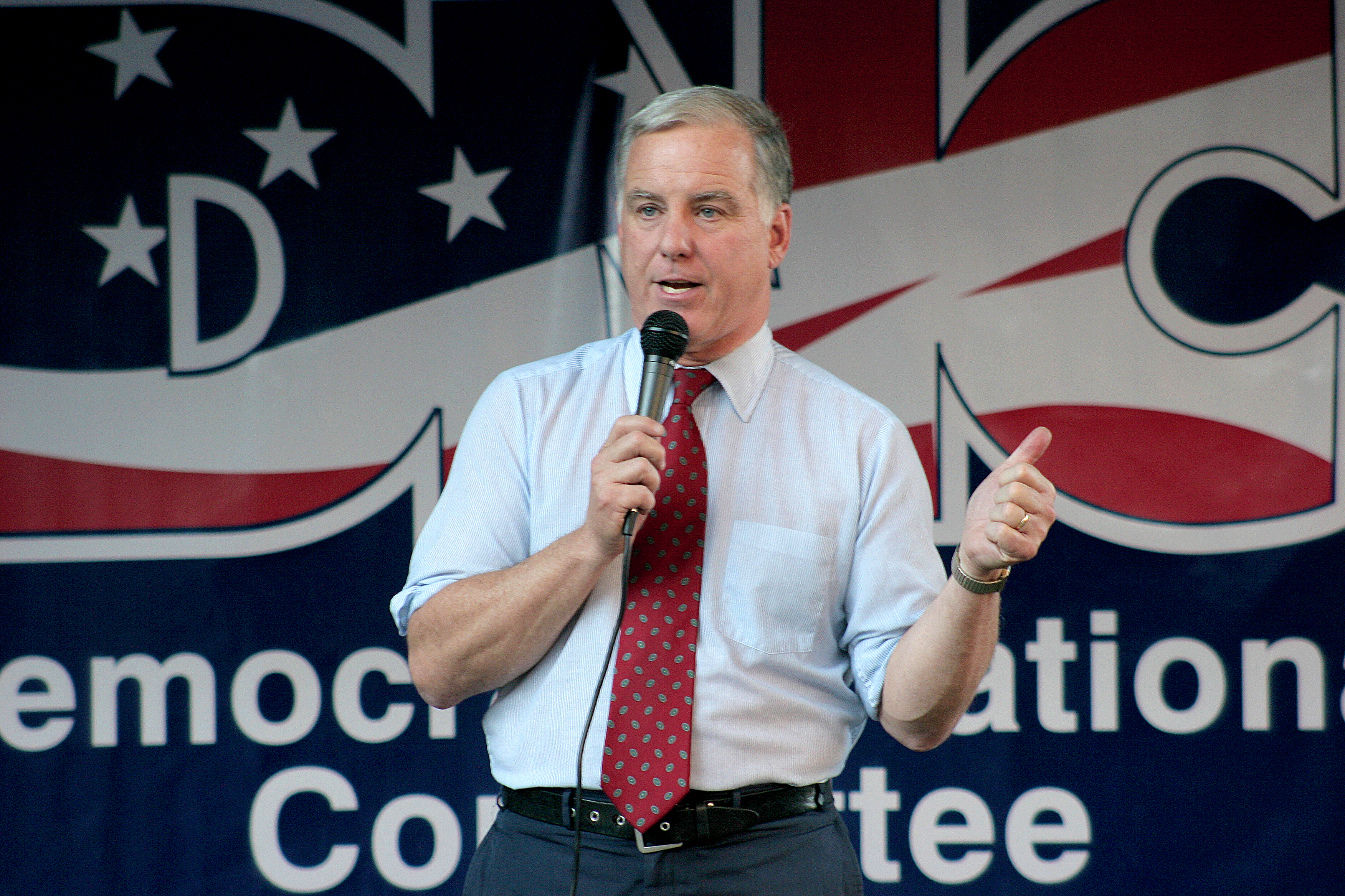 Howard Dean speaking at DNC event